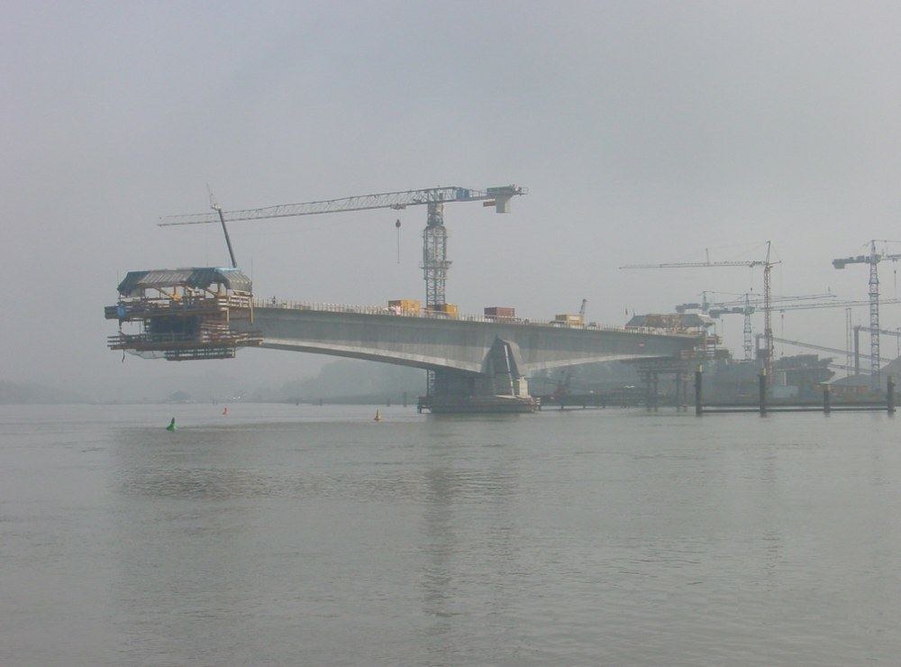 The Pierre Pflimlin bridge being constructed over the river Rhine between Germany and France. Photo of the eastern pylon, taken from the French side of the river (southwest, Eschau), with the cantilever construction almost 2/3rds of the maximum length. Visible behind the bridge is the approach viaduct and a cement works on the German side (Altenheim).